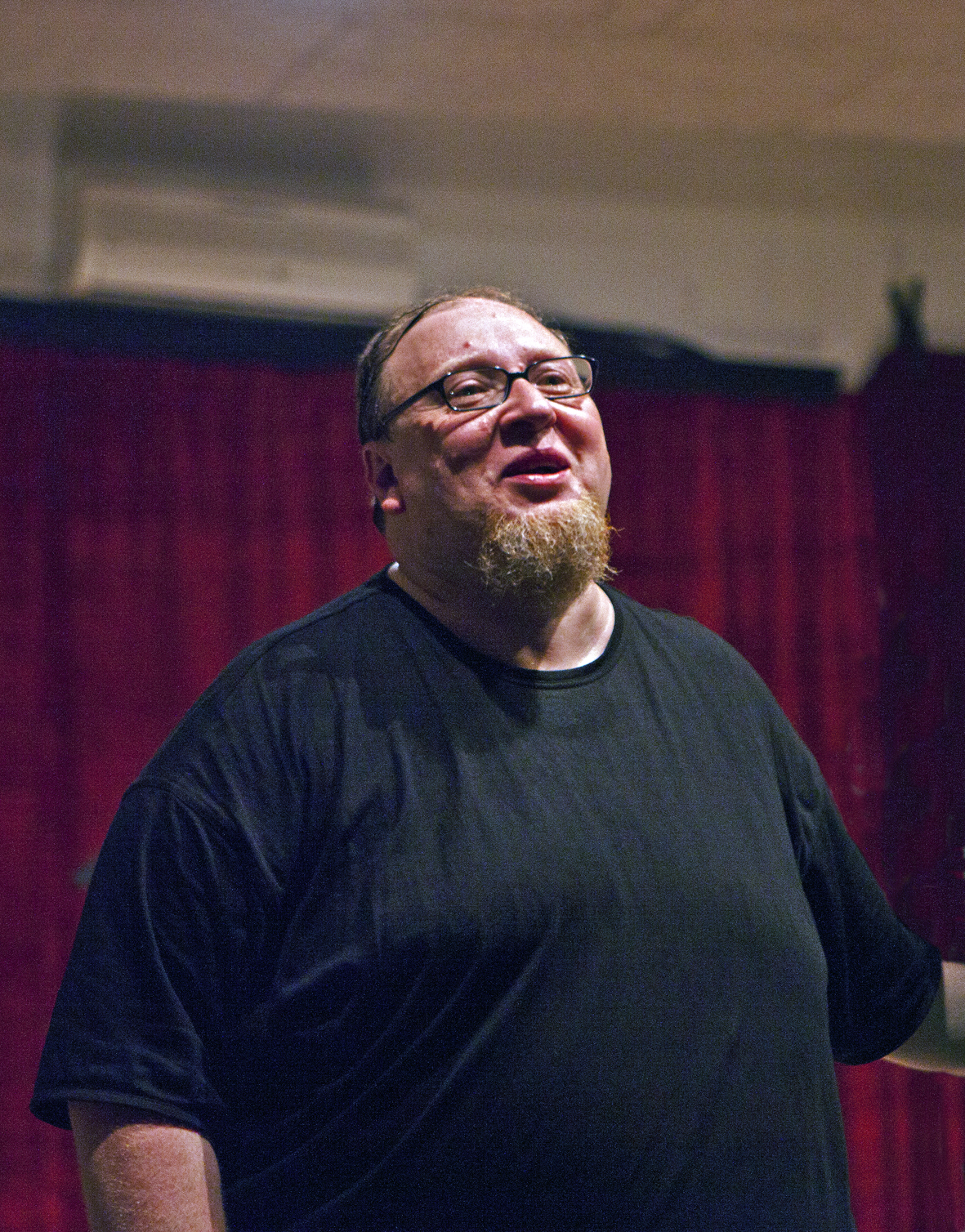 Jazzpianist Simon Nabatov, Cologne/Germany